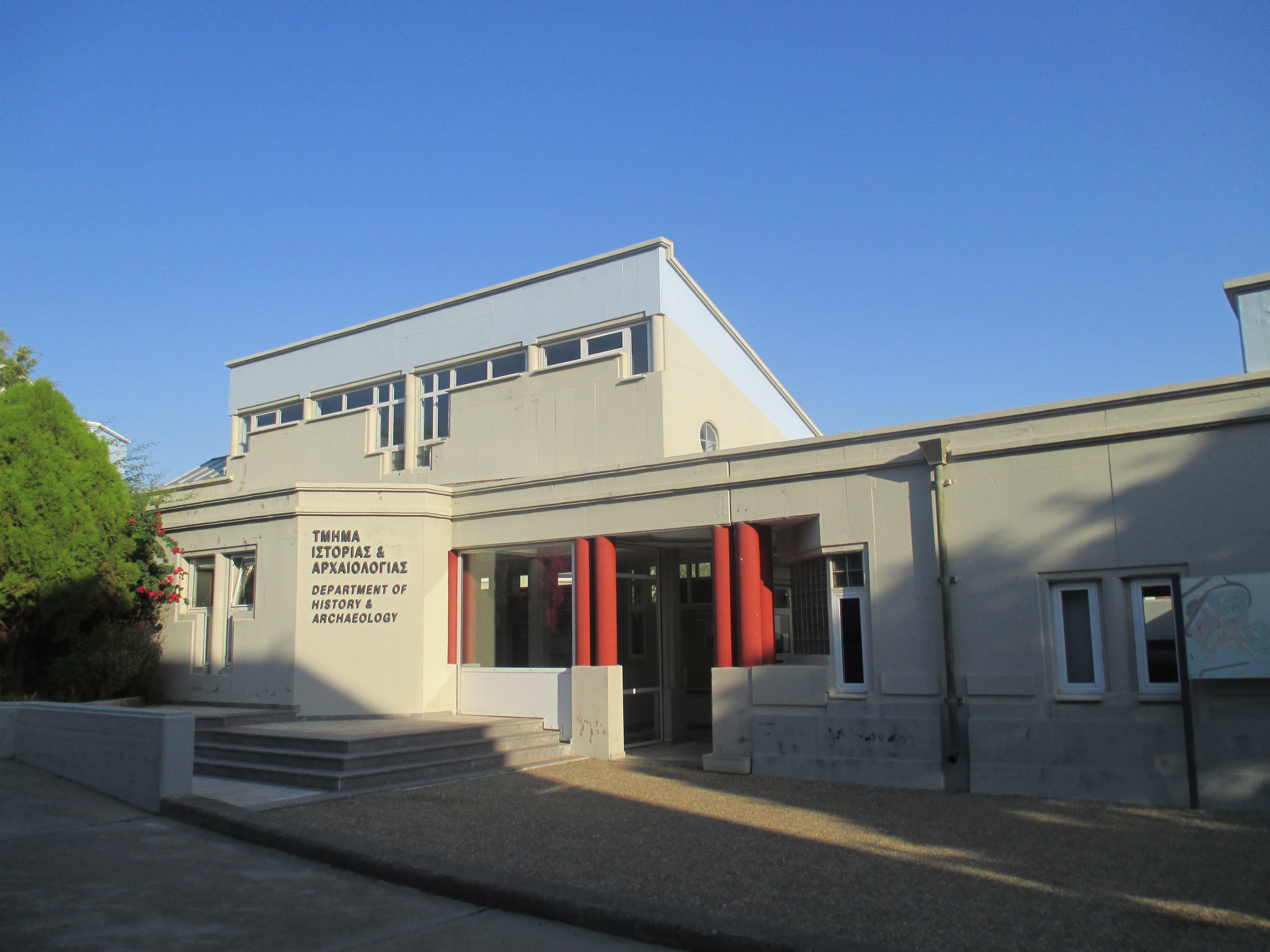 University of Crete, Rethymno Campus. Department of History and Archaeology.